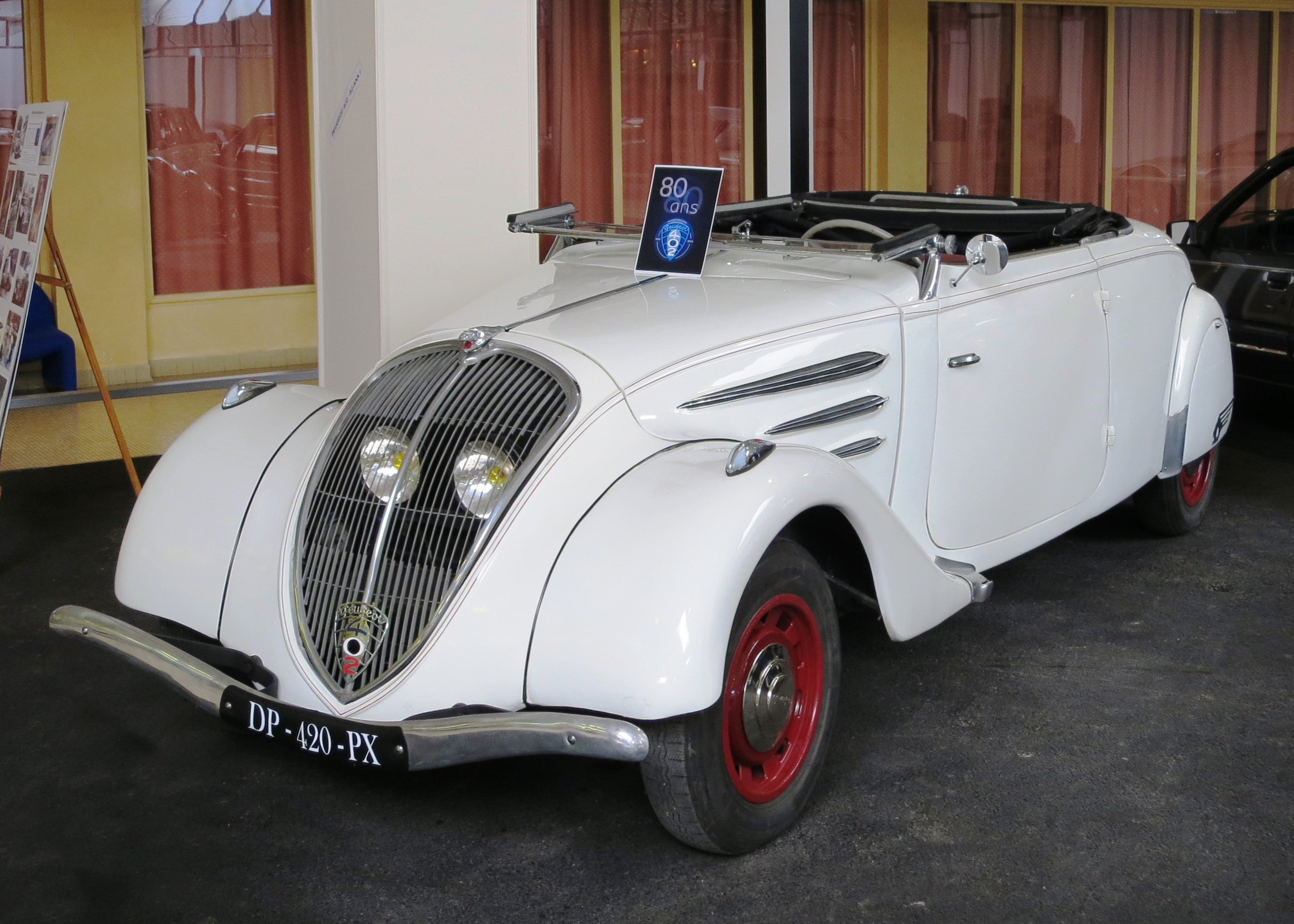 Peugeot 402 Roadster looking newly restored and polished to within a nanometer of its (no doubt twenty-first century) undercoat in the Peugeot Museum